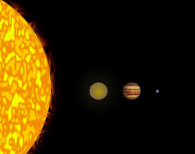 This illustration shows the size of our sun (left) compared with a brown dwarf (second from left), Jupiter (third from left) and Earth (right).